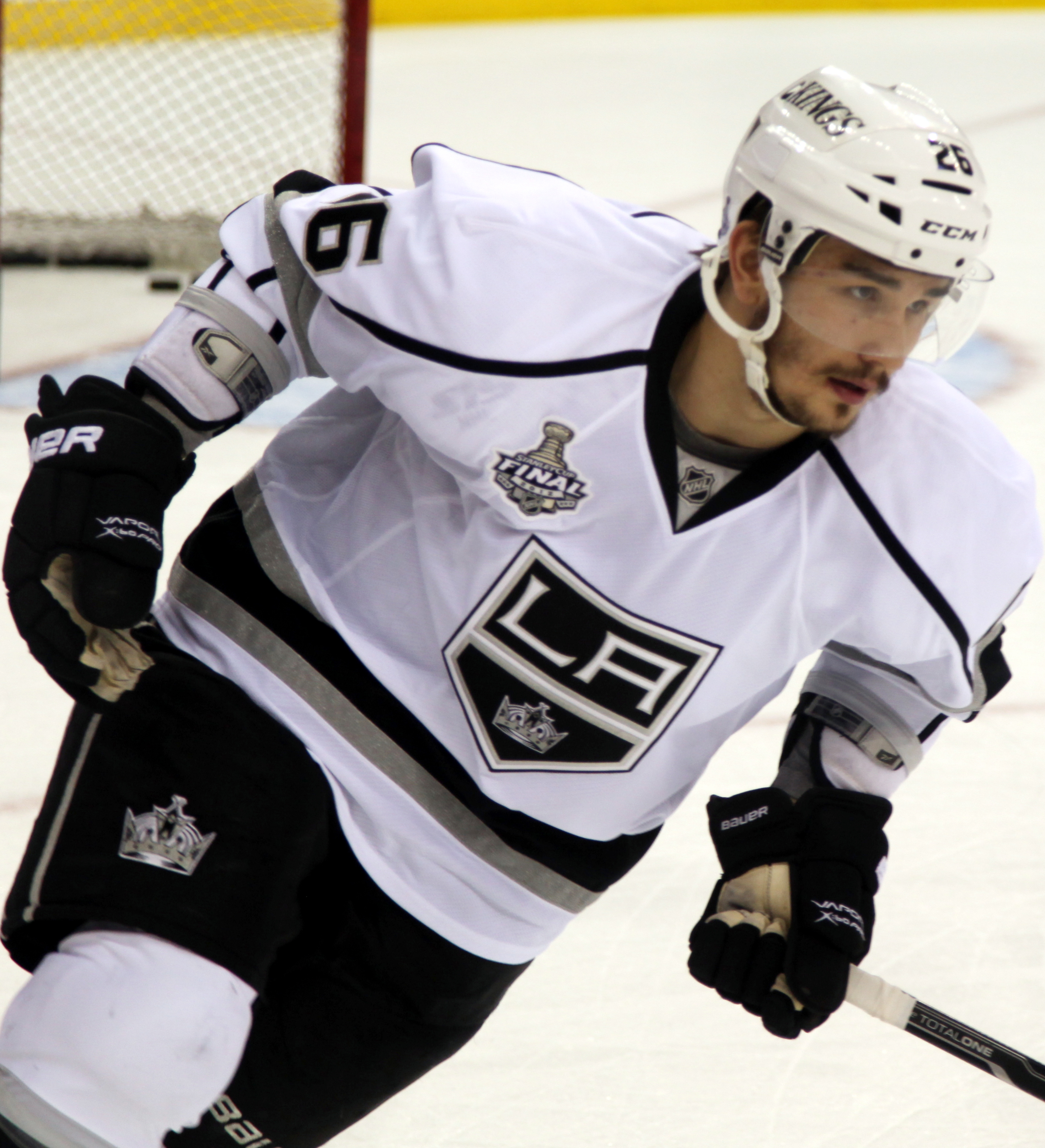 Voynov in 2012, during the Stanley Cup Finals.